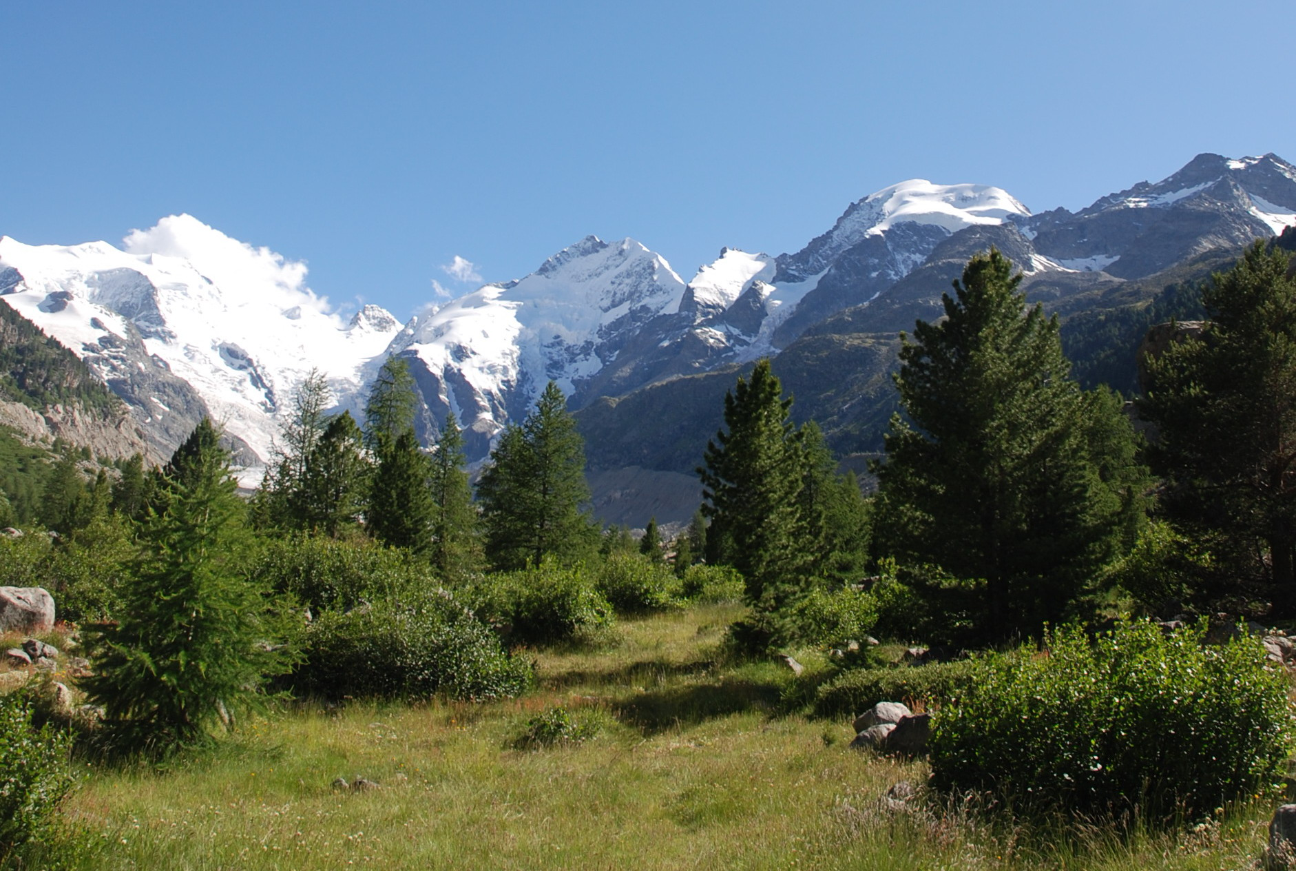 Morteratsch-valley with Piz Bernina (4.049 m), Piz Morteratsch (3.571 m) and Piz Boval (3.353 m)